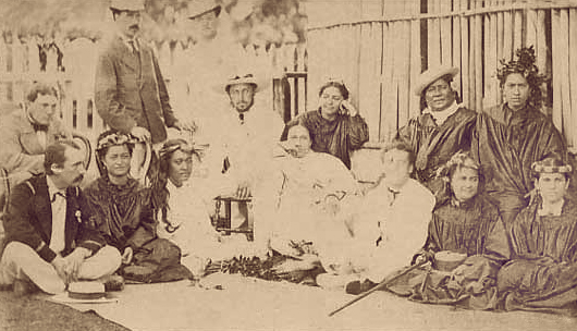 Group of Tahitian royal women with Prince Alfred, Duke of Edinburgh, and other European men. Carte-de-visite photograph, 1870, photographer unknown. Prince Alfred (son of Queen Victoria of England) visited Tahiti in 1870. He is seated on a chair at centre. The woman resting on his knee is Titaua Brander.